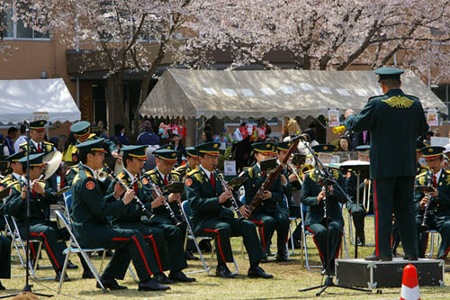 Taken by los688,5-Apr-2008,JGSDF Camp-Asaka.JGSDF Eastern Army band.PD-self. ja:2008年4月5日、投稿者撮影。陸上自衛隊朝霞駐屯地公開日。東部方面音楽隊。